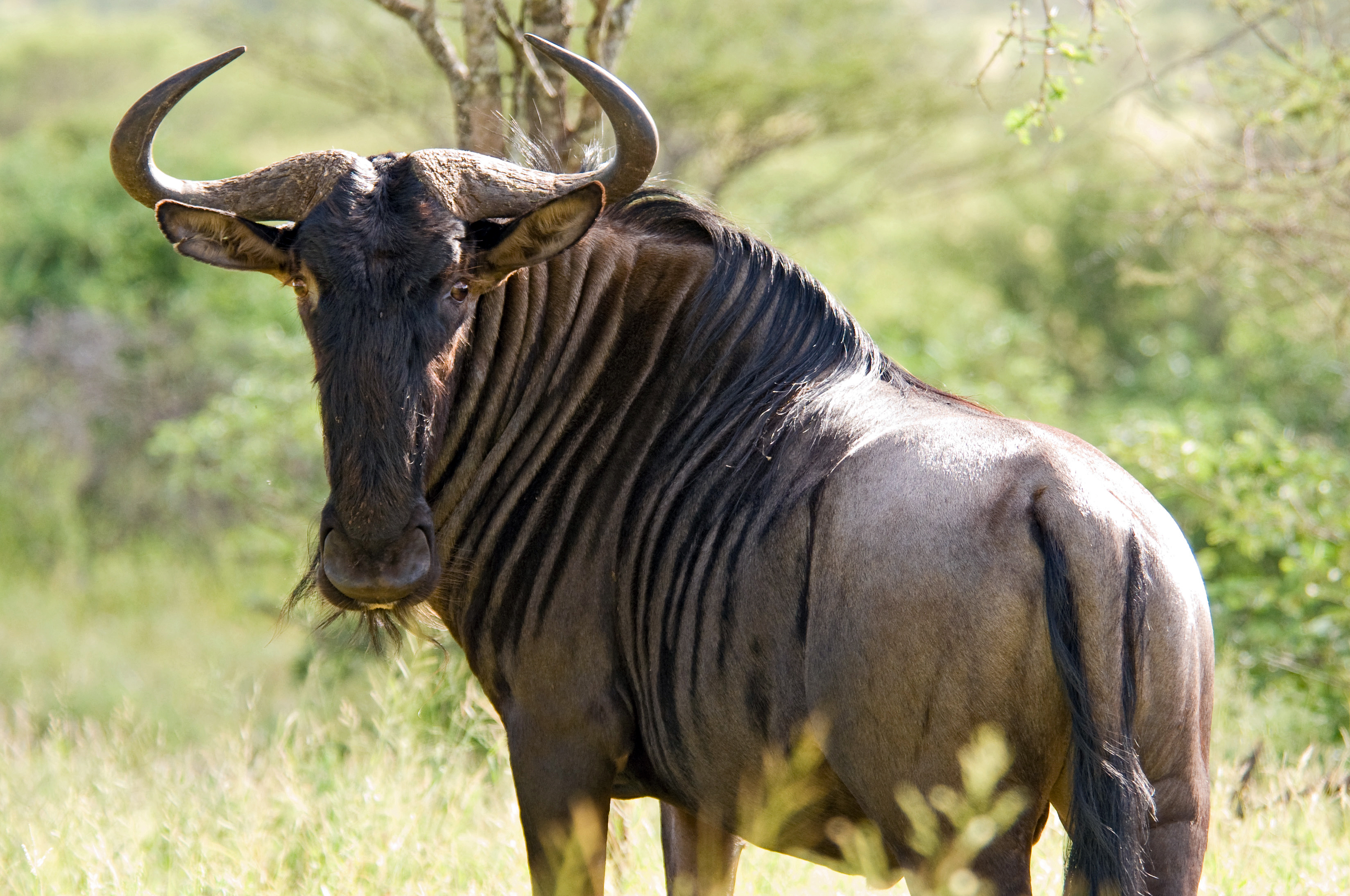 Wildebeest in Kruger National Park, South Africa.